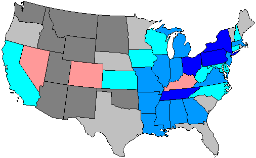 Summary of party change of U.S. house seats in the 1874 House election. Stripes indicate a tie between the gains of two or more parties. Legend: 6+ Democratic seat pickup 3-5 Democratic seat pickup 1-2 Democratic seat pickup 1-2 Republican seat pickup 3-5 Republican seat pickup 6+ Republican seat pickup Note: years ending in 2 may have inconsistent results due to redistricting.